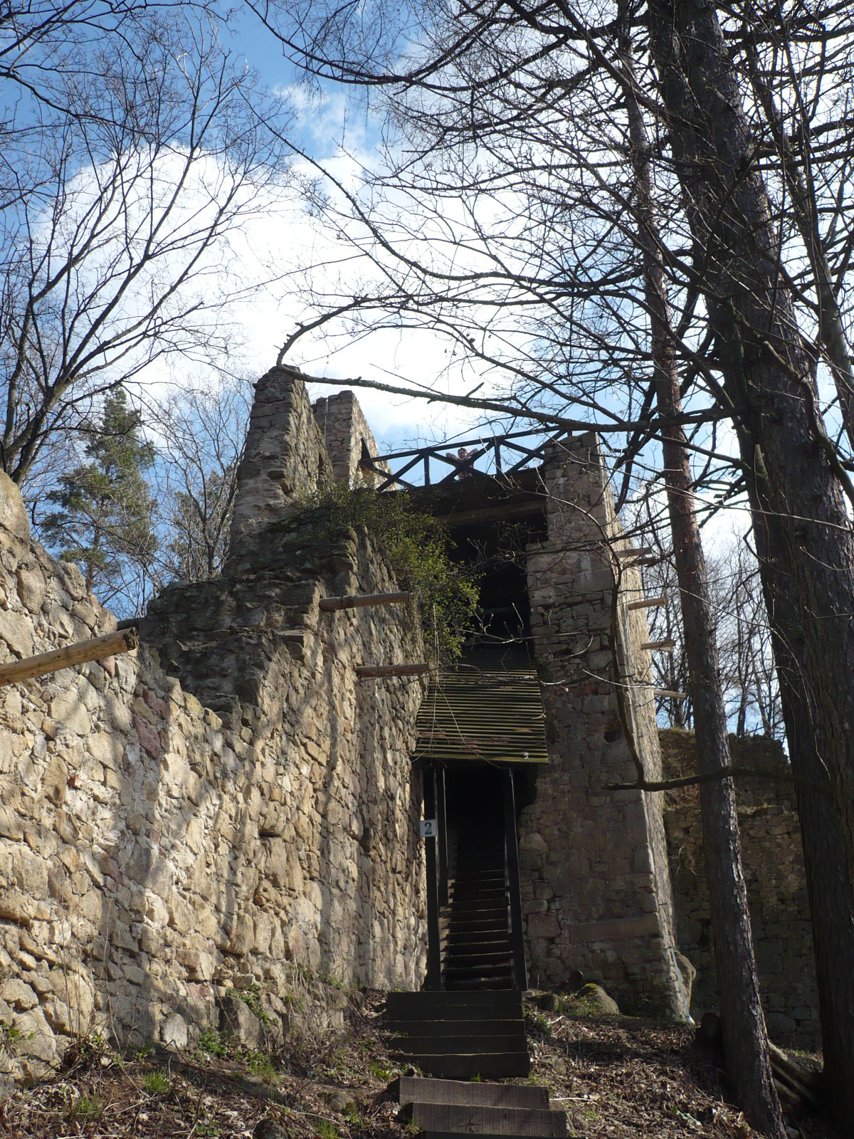 Castle Lukov, near village Lukov, District Zlin, Czech Republic